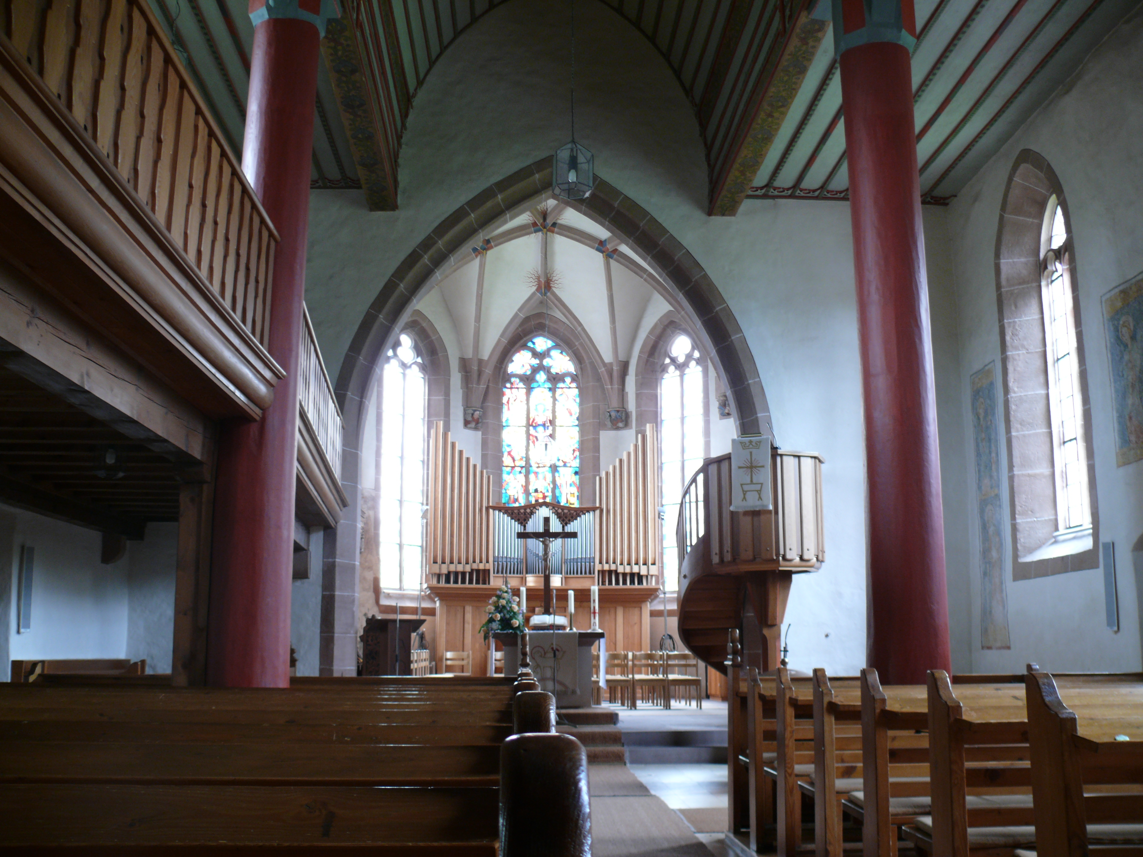 Interior of the Martinskirche (Saint Martin Church) in Altburg, a district of Calw (Baden-Württemberg, Germany).